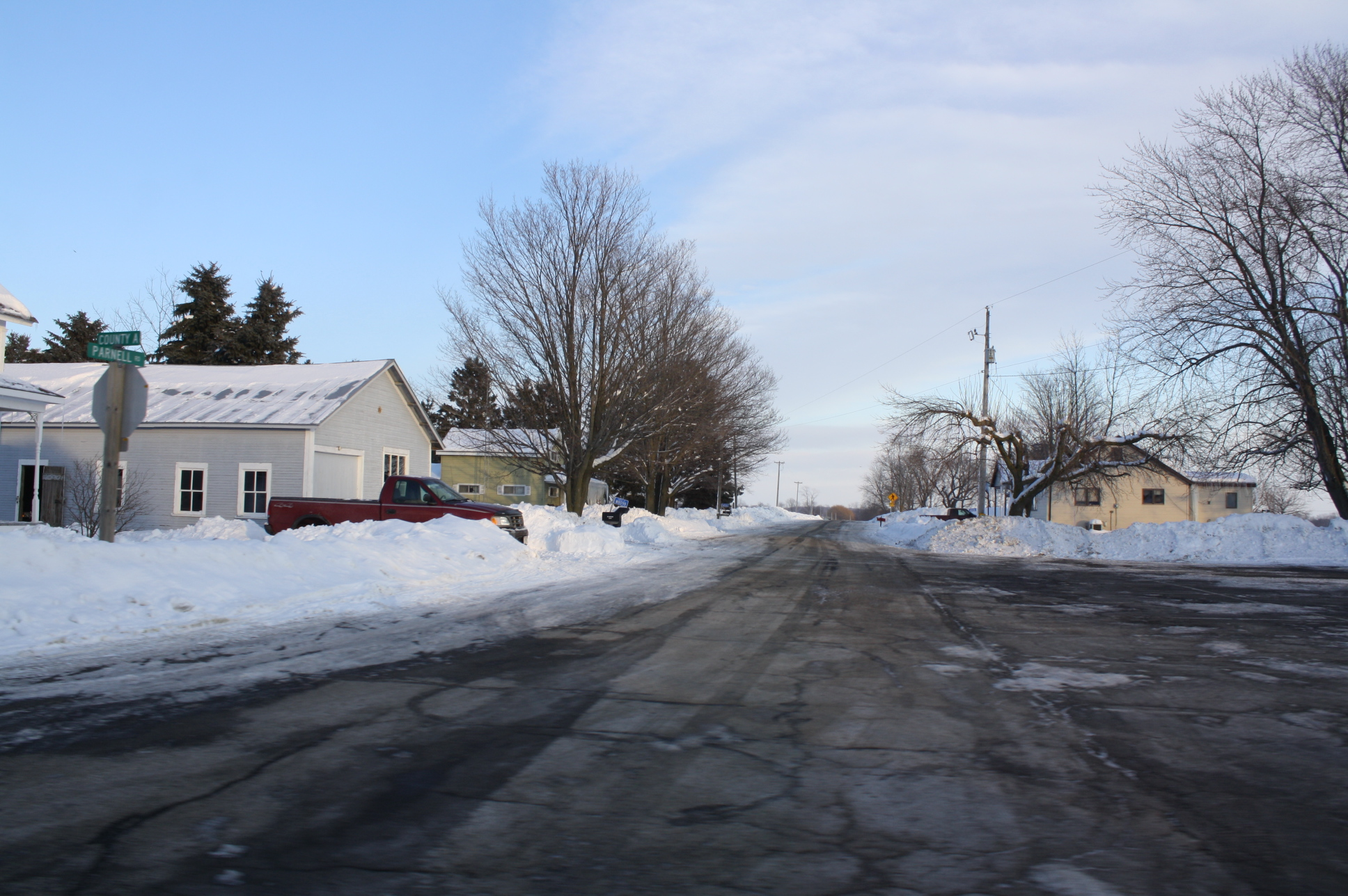 Looking east at the center of Parnell, Wisconsin on December 31, 2012